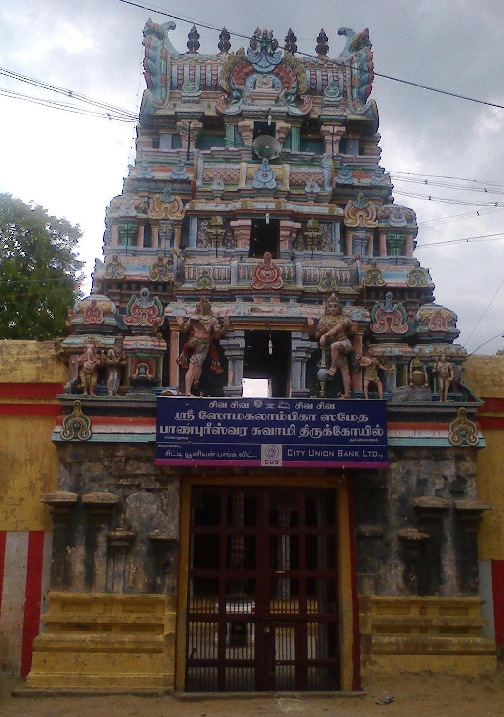 Kumbakonam Banupurisvarar templeகும்பகோணம் பாணுபுரீஸ்வரர் கோயில்